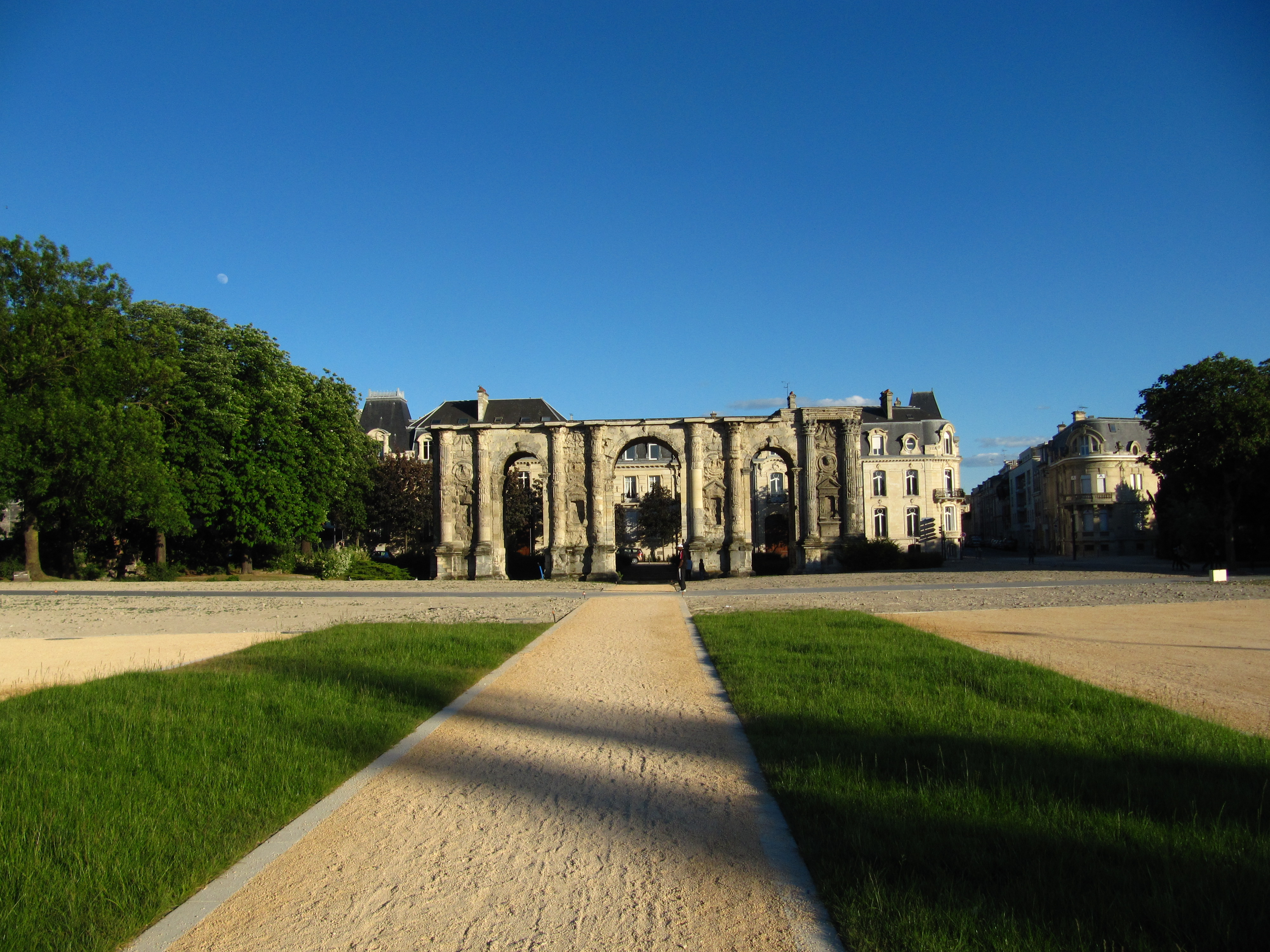 New view in May 2011: the tramway course required to remove the place de la Republique roundabout and the "Luchrone" sculpture. on the picture, the north side of the arch, i.e. outside of the old town.